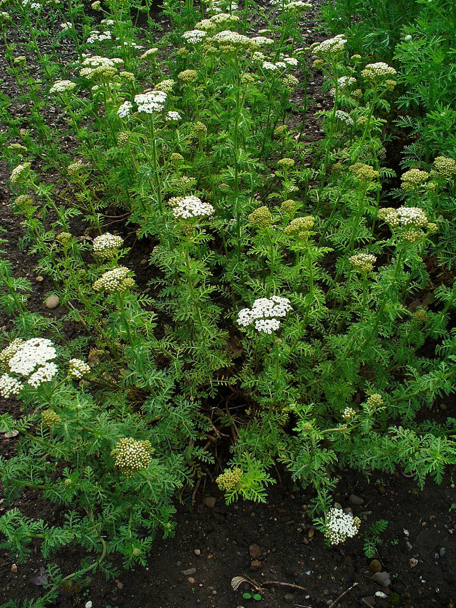 Achillea nobilis, Asteraceae, Noble Yarrow, habitus; Botanical Garden KIT, Karlsruhe, Germany.